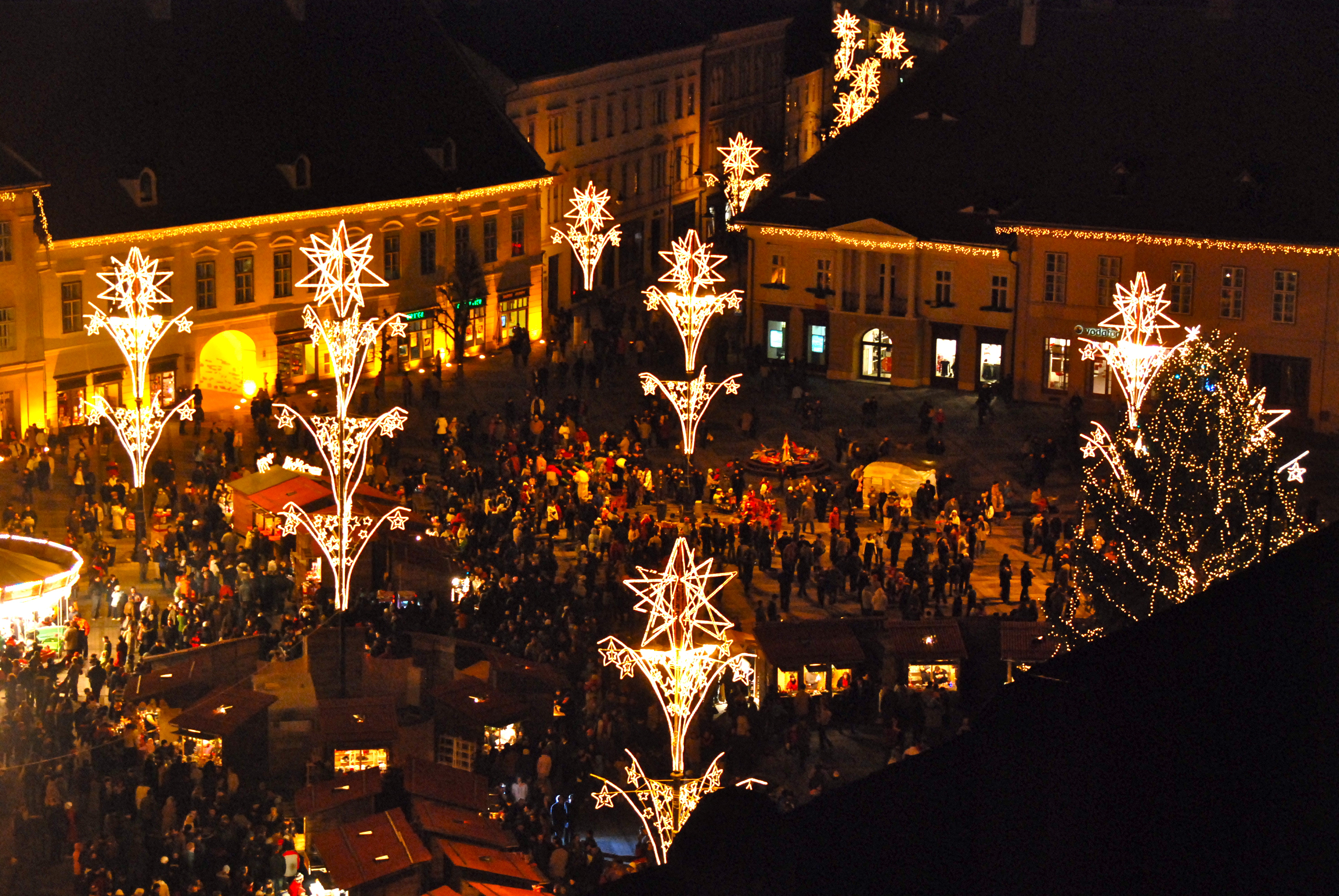 Opening evening of the Sibiu Christmas Market 2008, in Romania